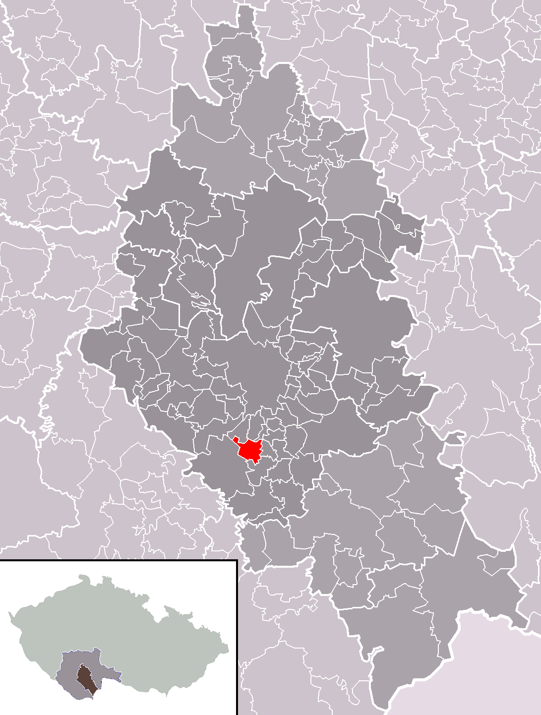 Location of Plav municipality within České Budějovice District and administrative area of České Budějovice as a Municipality with Extended Competence.